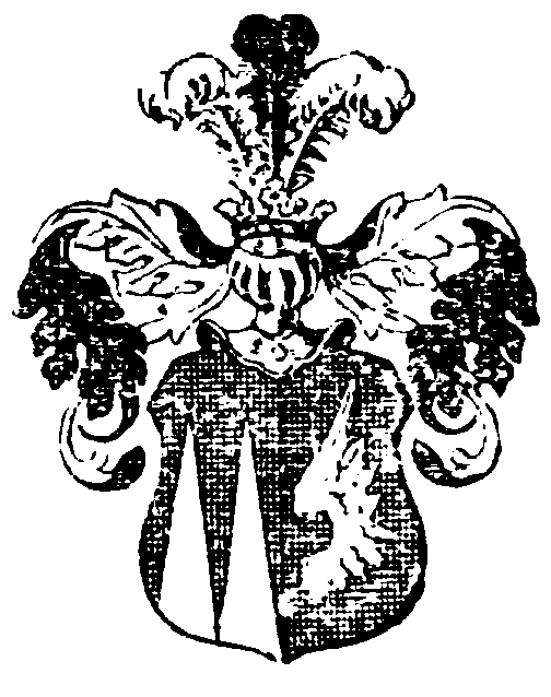 Heidenstein family coat of arms